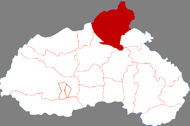 Location of Ningjin county in Xingtai City, China